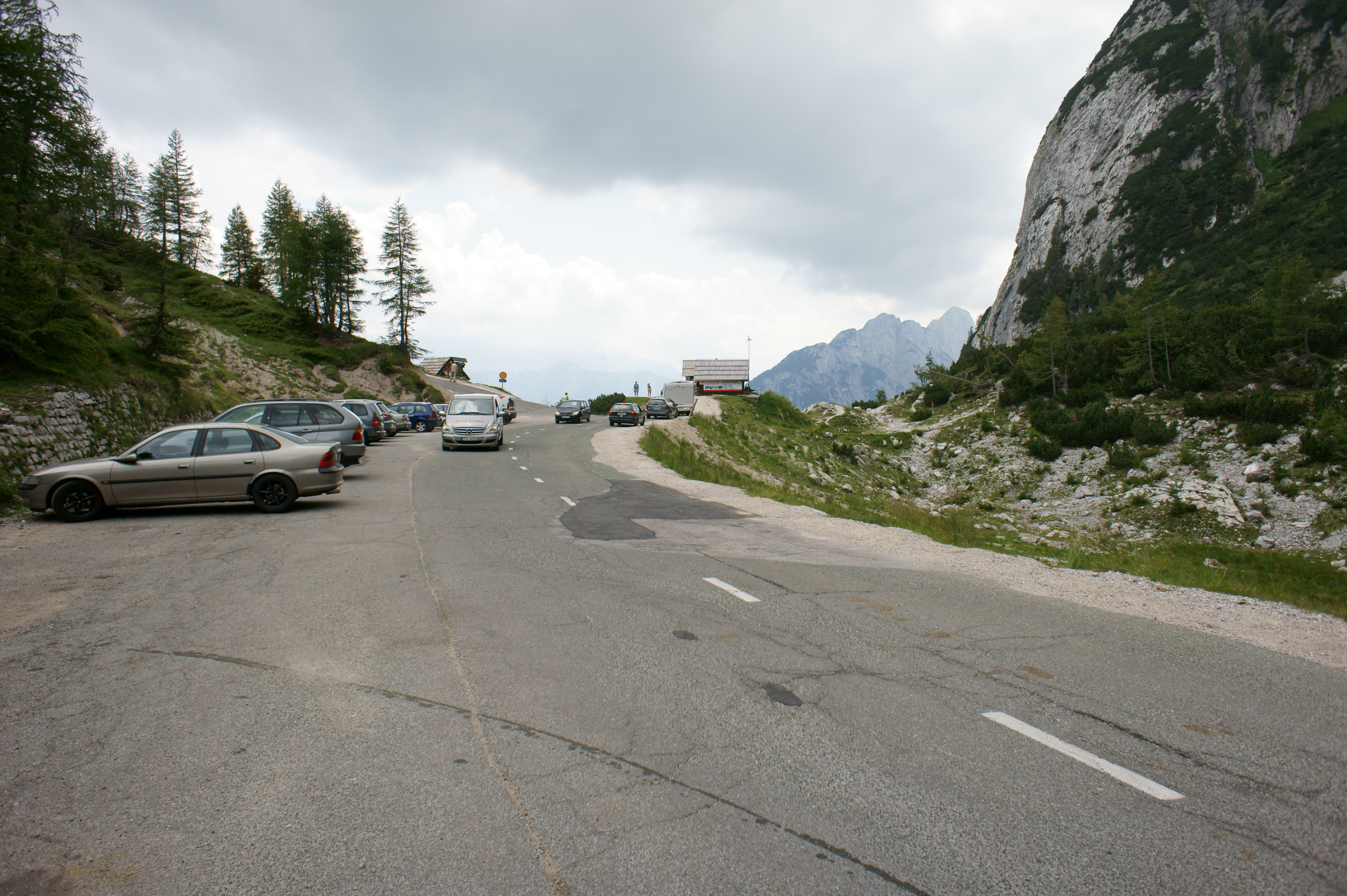 Mountain pass Vršič in Julian Alps, Slovenia.